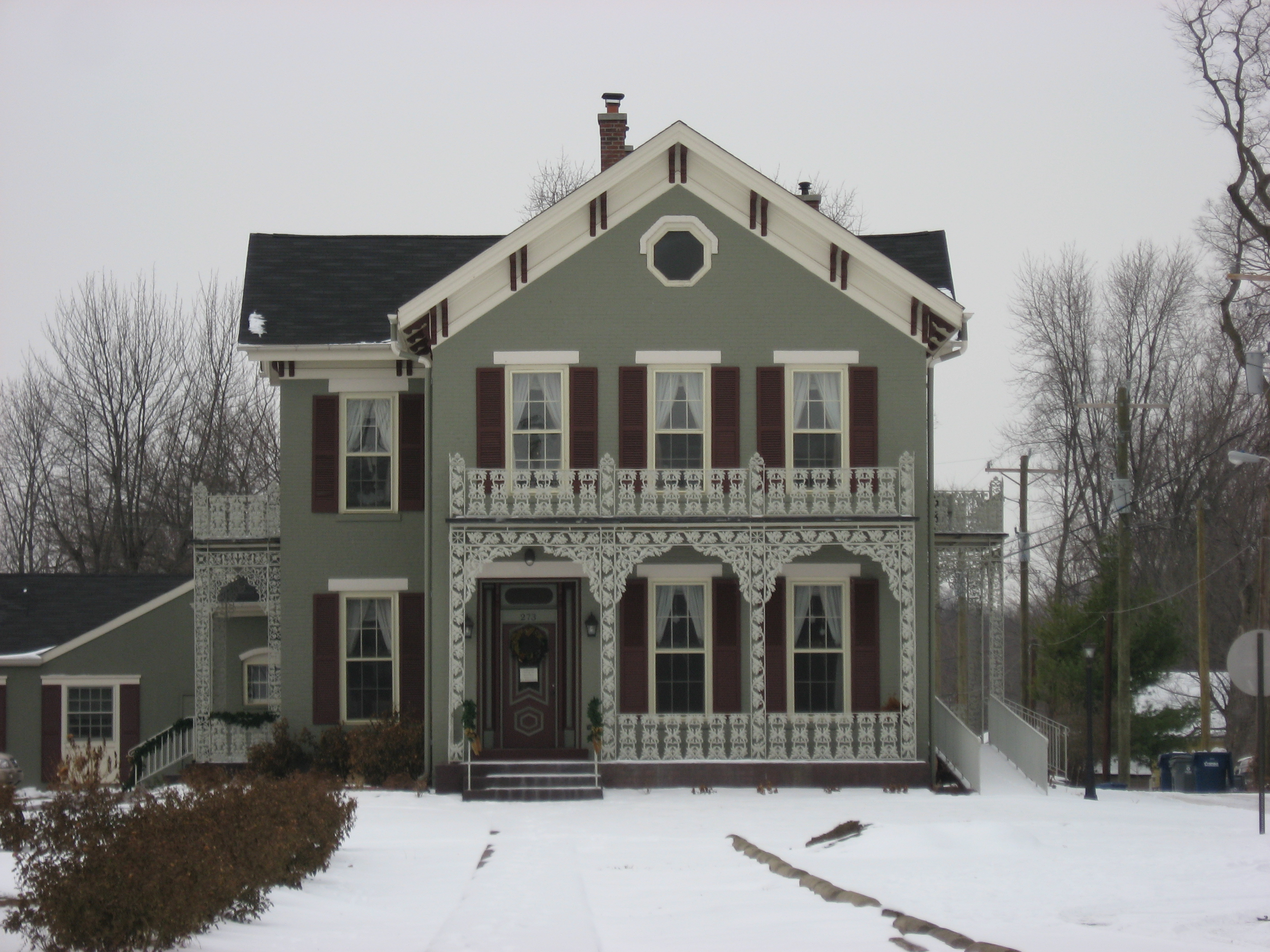 Front of the Robert L. Wilson House, located at 273 S. Eighth Street in Noblesville, Indiana, United States. Built in 1868, it is listed on the National Register of Historic Places.